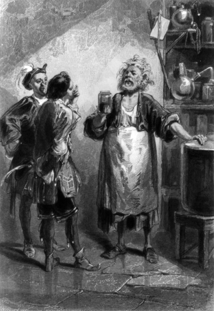 Gulliver visiting the academy of Lagado, from an 1850s French edition of Gulliver's Travels. Caption: "Je passai dans une autre chambre, l'odeur en ètait repoussant" ("I went into another room, the smell was so disgusting")